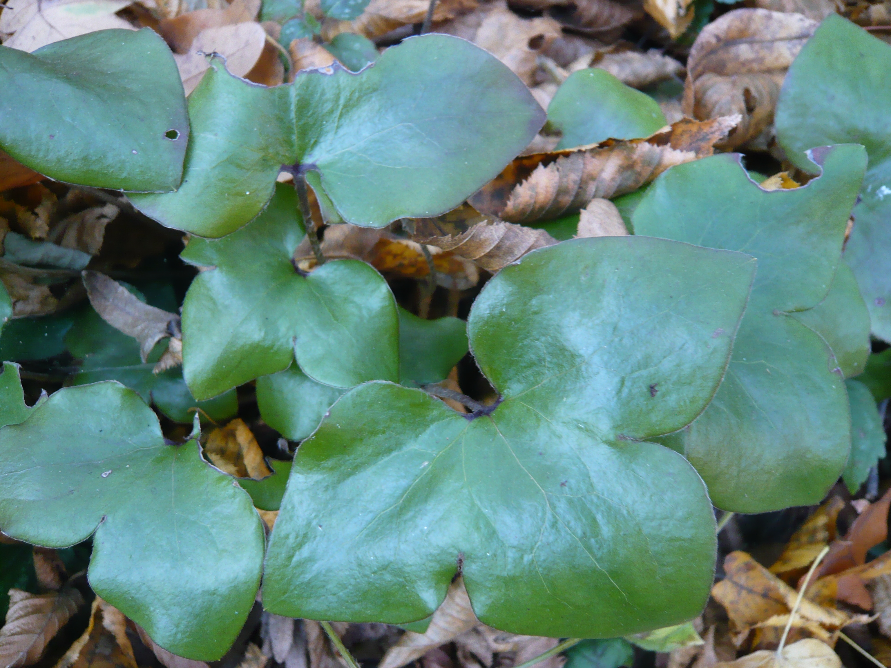 Jaterník trojlaločnatý (Hepatica nobilis)